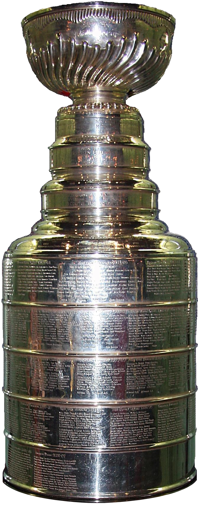 Stanley Cup exhibited at the Hockey Hall of Fame.